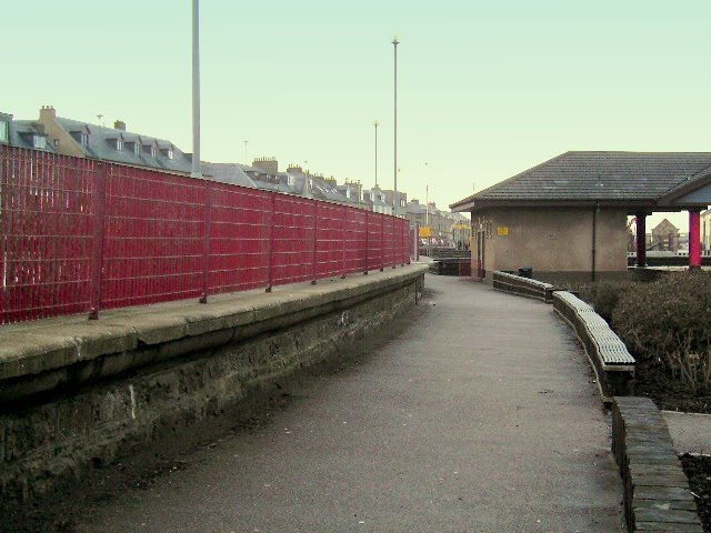 The former railway line at Lossiemouth In its heyday Lossiemouth had a direct rail link to Aberdeen.The railway line ran along this path, which is now part of Station Park. The edge of the wall, to the left, was the edge of a platform. This platform now forms part of the gardens at Station Park.